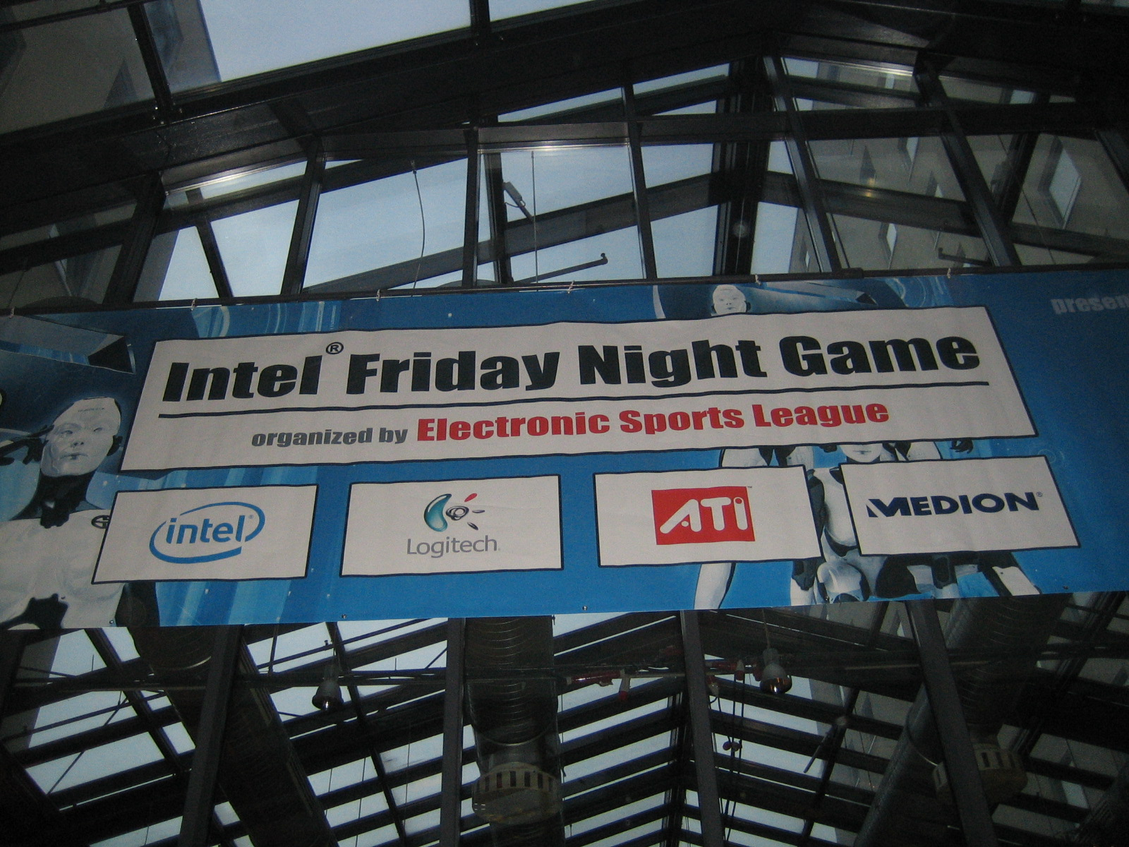 Intel Friday Night Game 2006 in Berlin / Germany